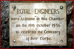 The Great North Road is a large road inside a tunnel that was built within the Rock of Gibraltar. Picture from which is a cc by sa site